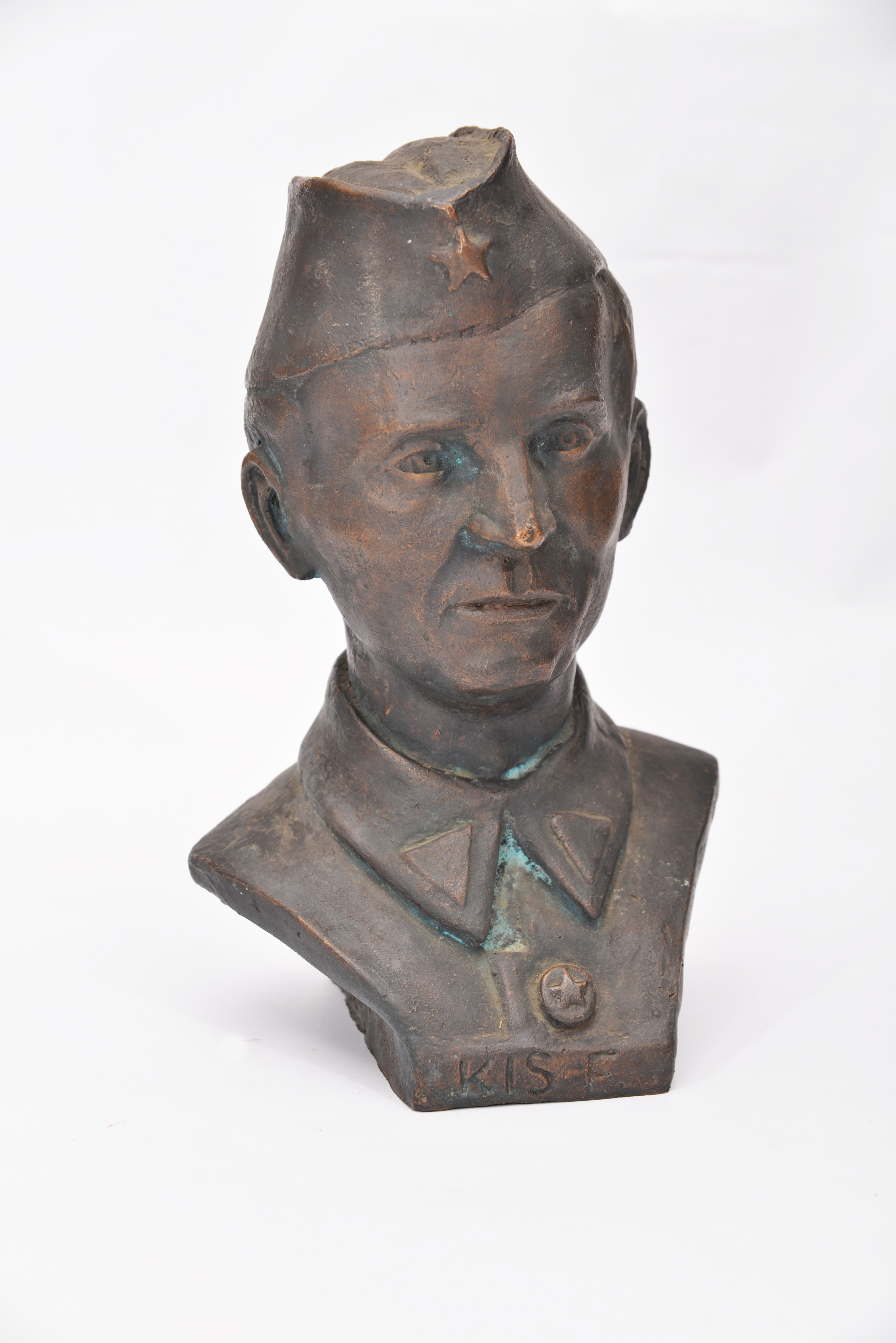 Bust of Ferenc Kiš, the commander of the XV Vojvodinian "Petefi" brigade during World War II in Yugoslavia, Three-dimensional objects collection, inventory number 532 Srpski (latinica): Bista komandanta XV vojvođanske „Petefi“ brigade Ferenca Kiša, Zbirka trodimenzionalnih predmeta, inventarski broj 532